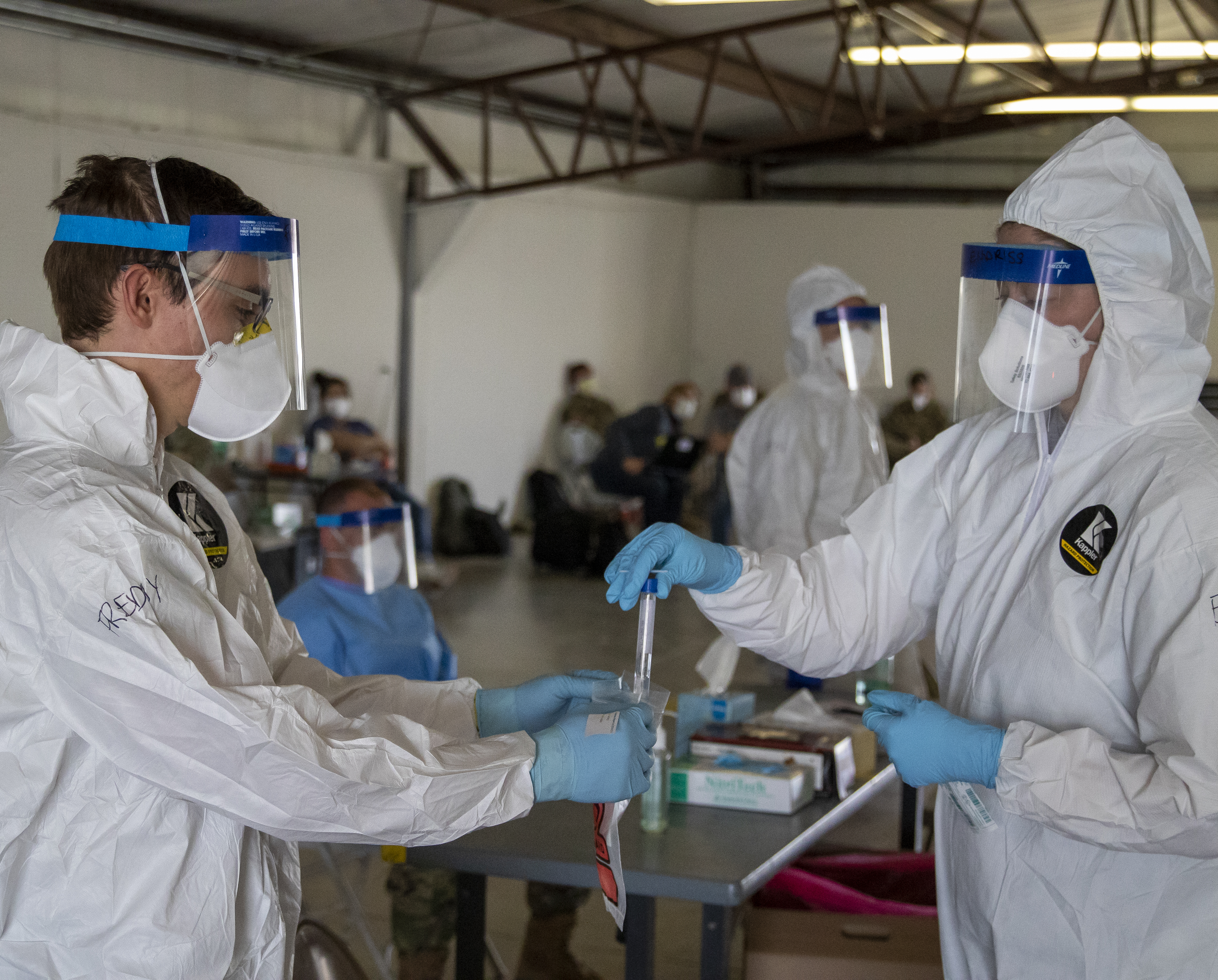 Nebraska Air National Guard Staff Sgt. Tyler Fredrickson, (left), 155th Medical Group, helps collect nasopharyngeal samples with Nebraska Air National Guard Staff Sgt. Kaycee Endriss, (right), from first responders and healthcare workers, April 22, 2020, at a mobile testing site at the Sarpy County Fairgrounds in Springfield, Nebraska. The Nebraska National Guard has multiple teams supporting the Nebraska Department of Health and Human Services with COVID-19 mobile testing across the state. (Nebraska National Guard photo by Sgt. Lisa Crawford)